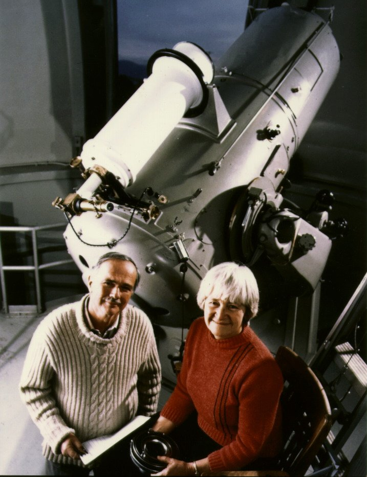 Gene and Carolyn Shoemaker at the 18 inch Schmidt at Palomar Observatory.